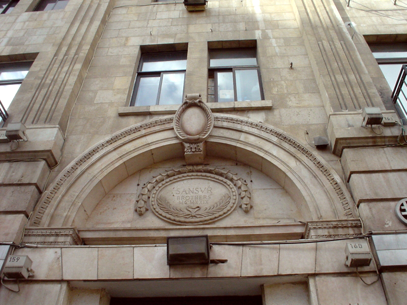 Sansur Brothers Building in Zion Square, Jerusalem - inscription : "SANSVR (Sansur) BROTHERS MCMXXIX (1929)"